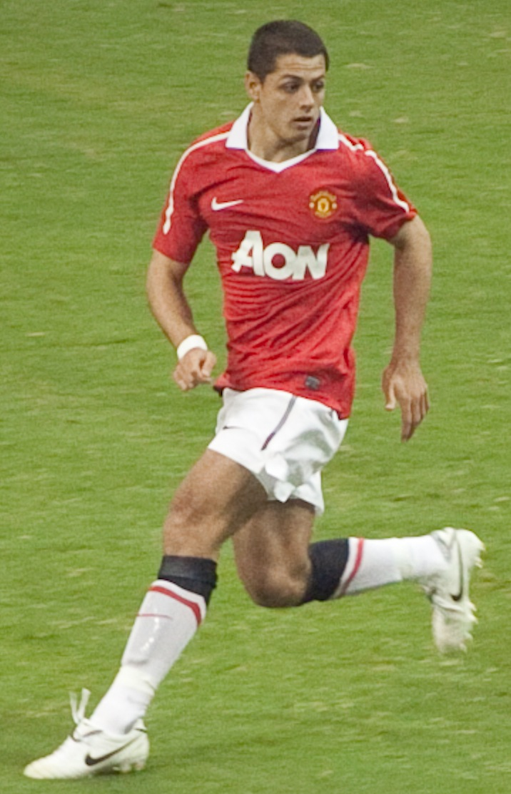 Javier Hernandez of Manchester United in action against the MLS All-Star team.